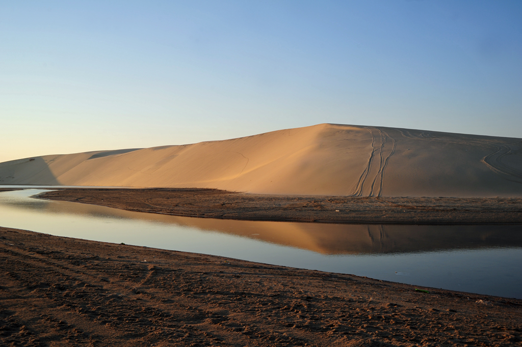 Most of Qatar's scenery is uninspiring to look at, but south of Doha the desert can be quite pretty. Especially near the coast. This was taken a few miles south of Sealine beach resort, which is itself about 40 miles south of Doha. Note the inevitable tyre tracks made by the tiresome dune bashers. I did consider photoshopping them out, but they are an inevitable part of this area of Qatar, so I left them in.